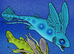 Reconstruction of the prehistoric cartilaginous fish Iniopteryx rushlaui, from the Carboniferous United States